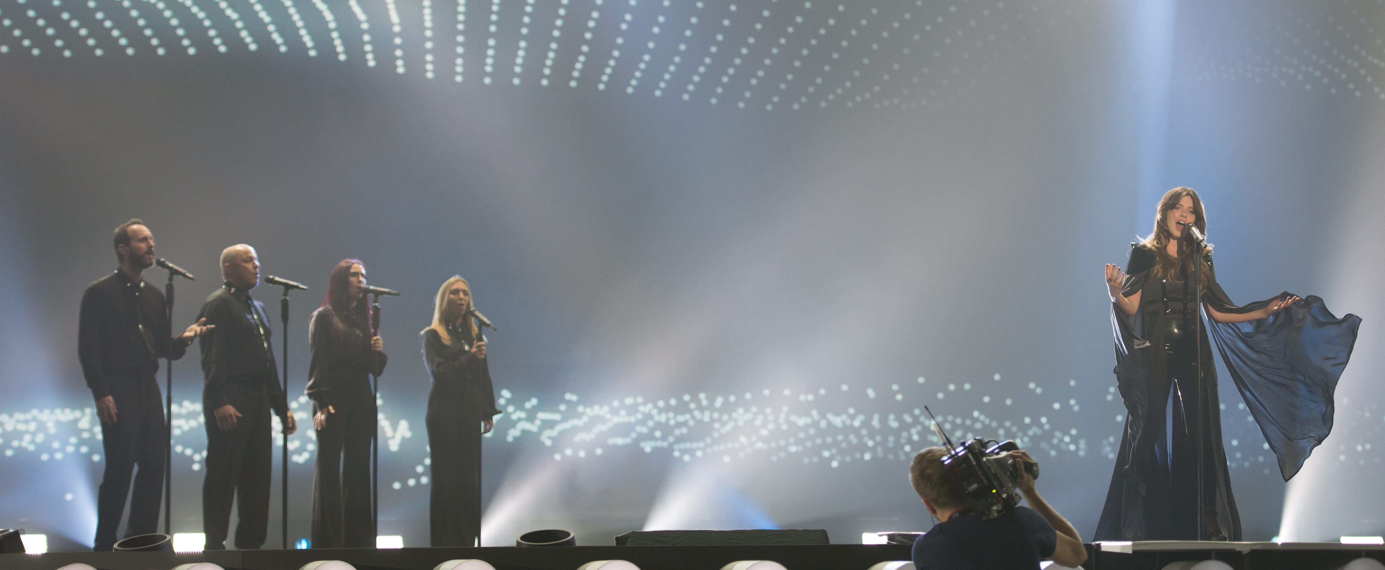 Eurovision Song Contest Vienna 2015: Leonor Andrade